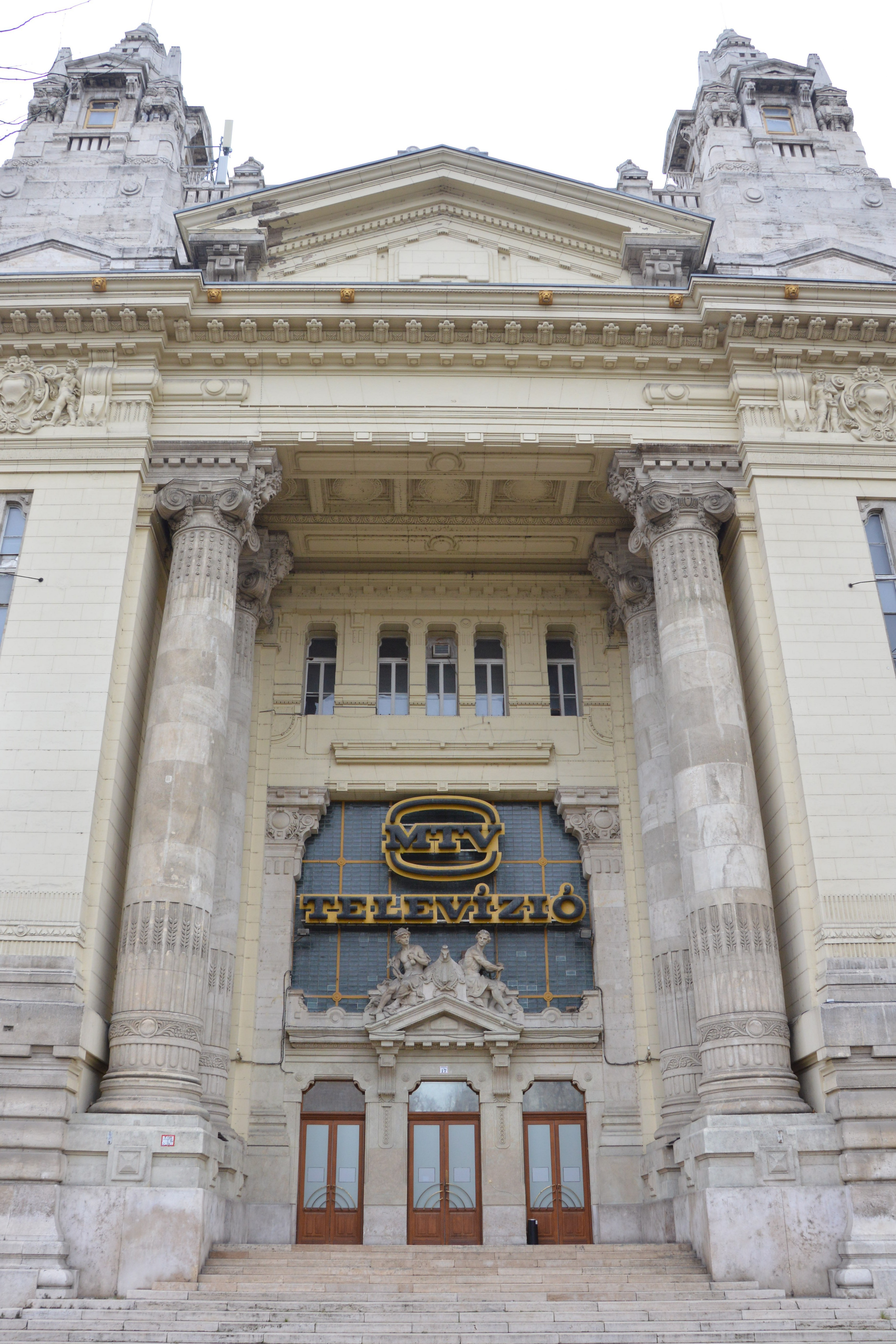 The entrance to Hungarian Stock Exchange Palace (Tőzsdepalota) and former home of MTV Magyar Televízió in Szabadság tér, Budapest, Hungary.